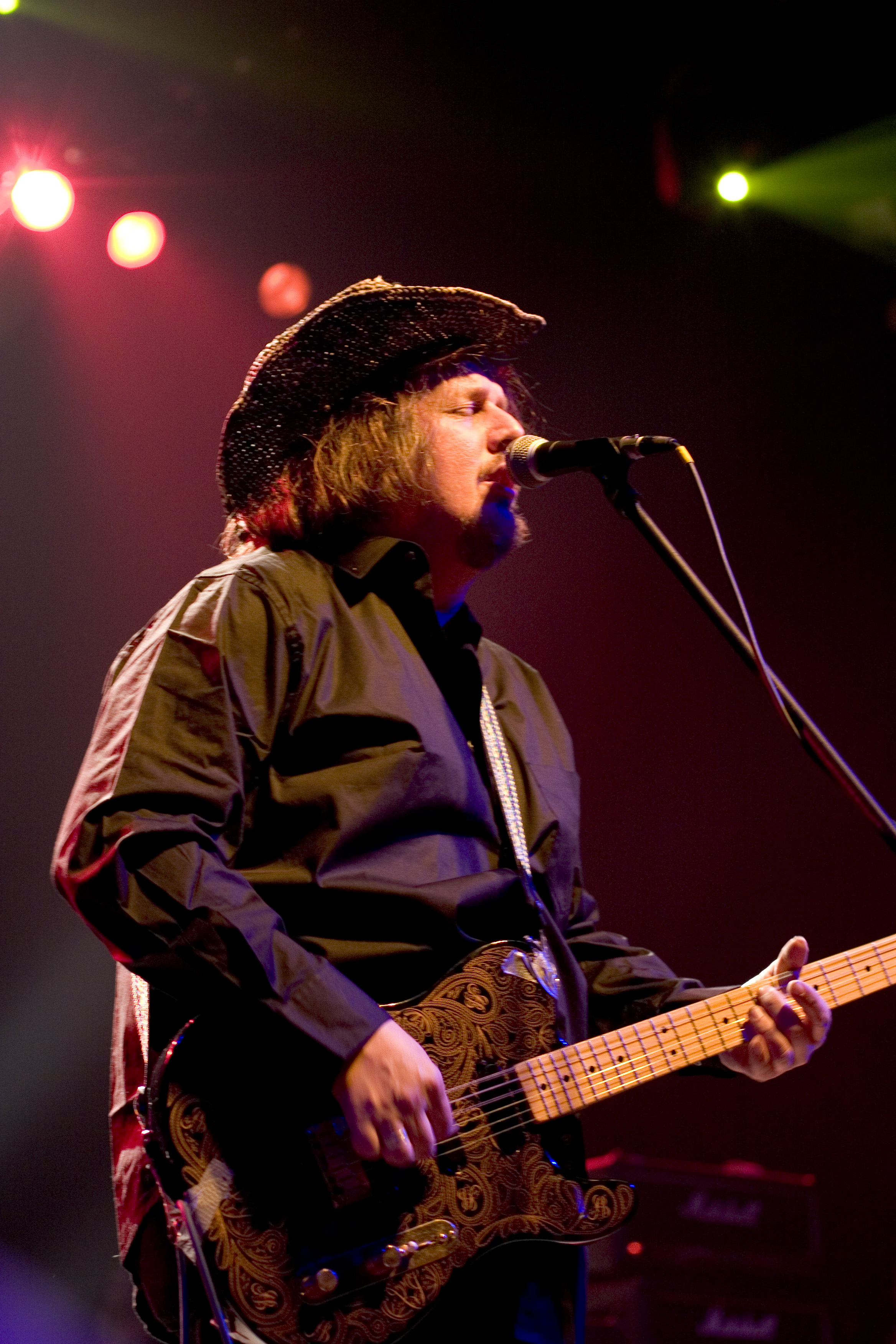 Kevn Kinney @ the Roxy (Atlanta, GA) Nov 25, 2005.